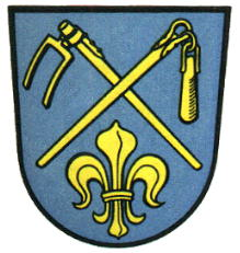 Coat of Arms of Höchberg